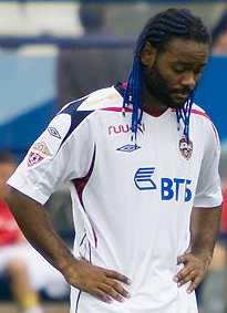 Vágner Love, Brazilian footballer.